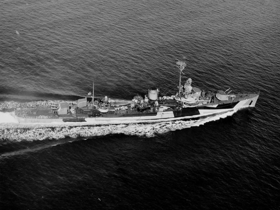 The U.S. Navy destroyer USS Davis (DD-395) underway at sea in March 1945, after being refitted with 5"/38 dual-purpose guns in place of her original low-angle guns. The ship is painted in Camouflage Measure 32, Design 3D.